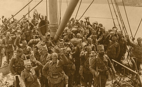 Evacuation of the Morava Division French boat to the island of Corfu 1916.